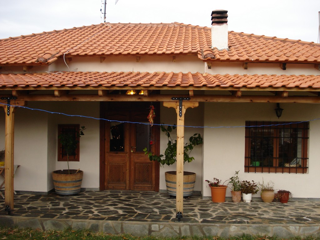 Old House in Agora Pazarlar in Drama Prefecture